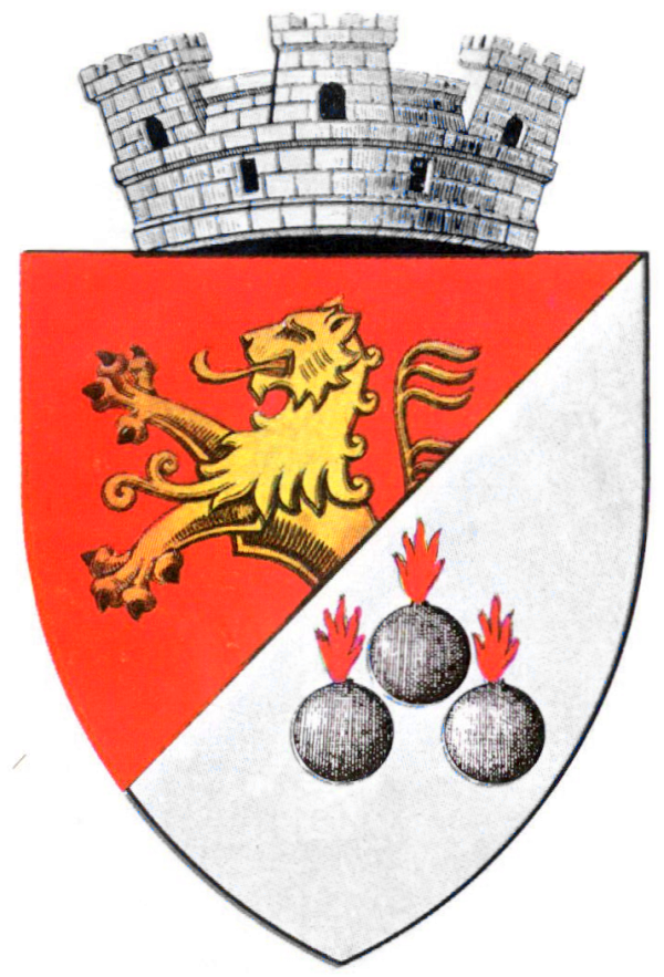 Interwar coat of arms of Calafat, Dolj County, Kingdom of Romania.